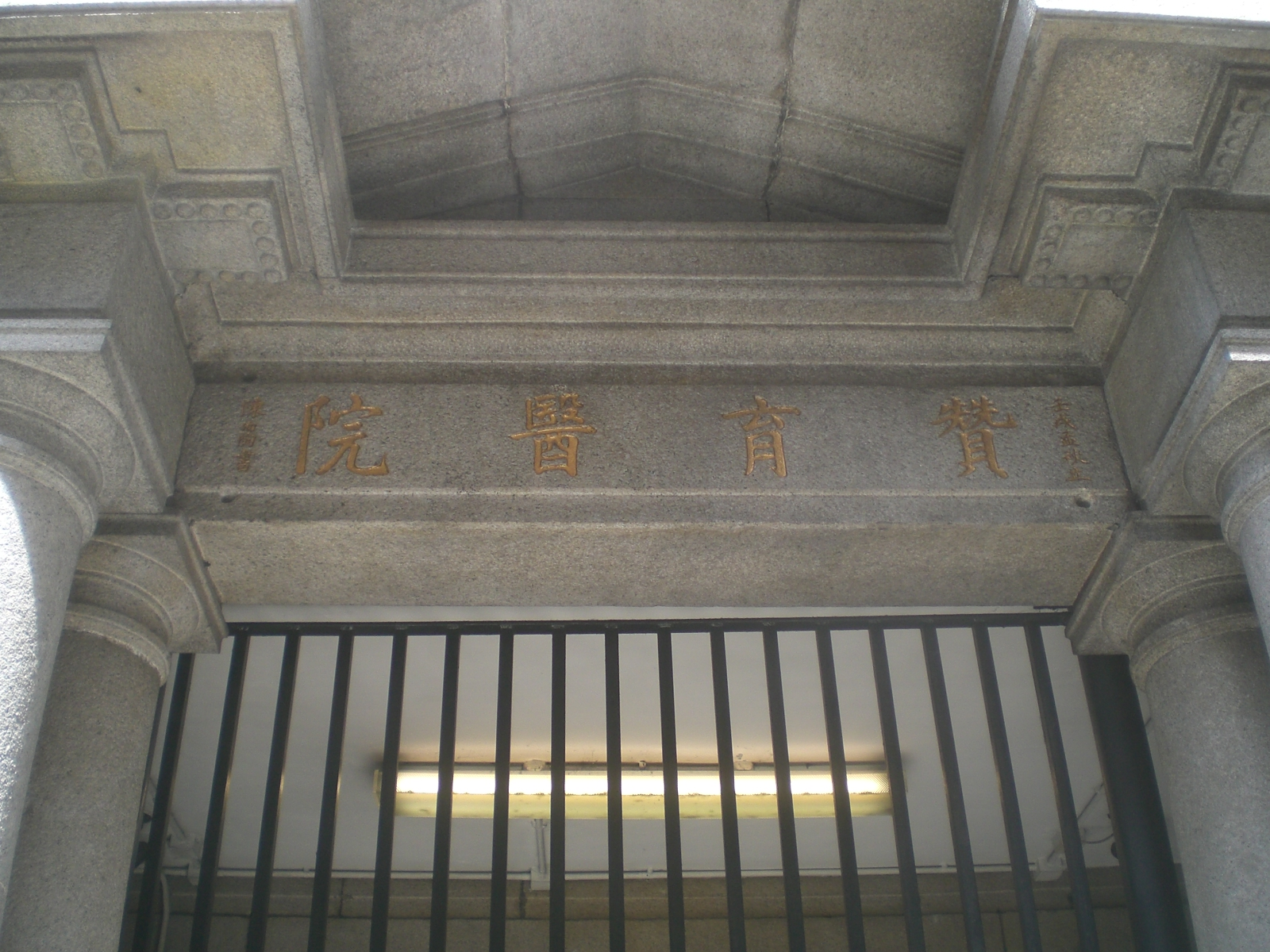 西邊街zh:西區社區中心 - 前贊育醫院